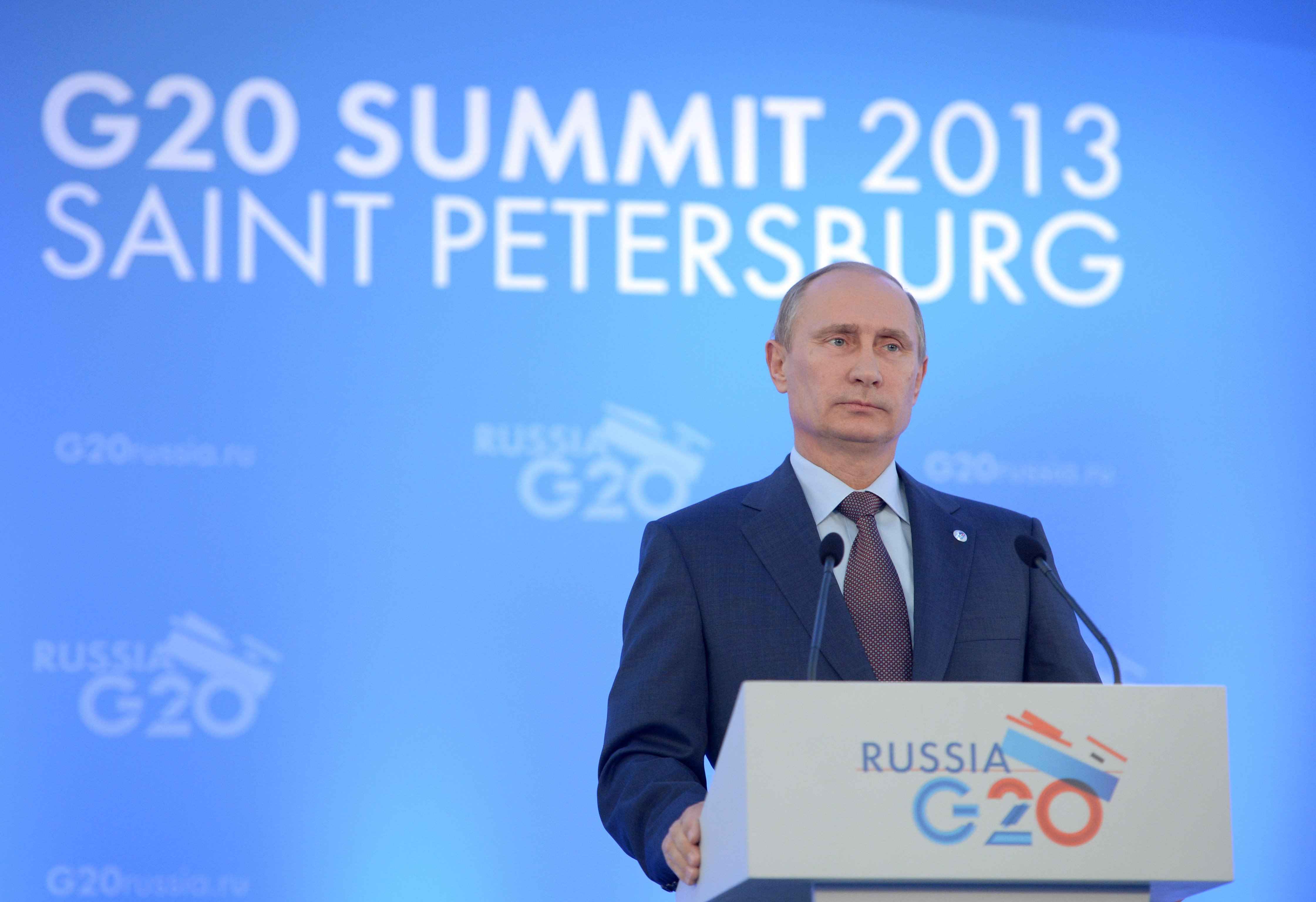 Vladimir Putin’s news conference following the G-20 Saint Petersburg Summit (2013-09-06)